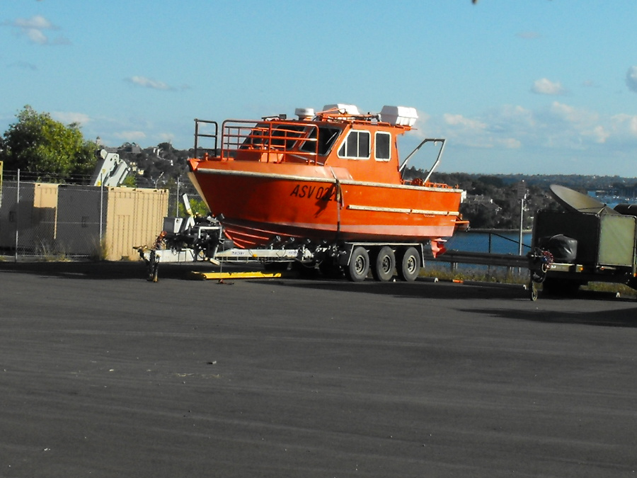 The Antarctic Survey Vessel (ASV) Wyatt Earp. The vessel and boat trailer are shown stored at HMAS Waterhen